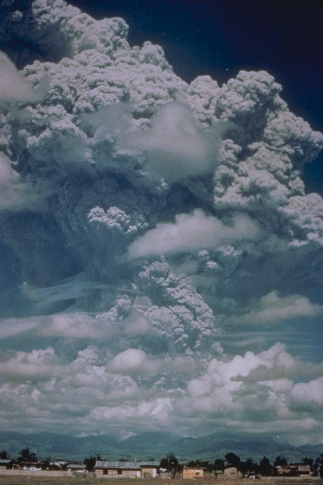 The first major eruption of Pinatubo on June 12, 1991; view to the west from Clark Air Base. Pyroclastic flows (clouds of ash and steam) advanced 5-15 km down the north, northwest, and southwest flanks of the volcano. Most of the remaining personnel at Clark Air Base were evacuated along with thousands of people at nearby Angeles City. However, personnel returned to Clark Air Base within a few hours of the start of this first eruption, as winds had blown the volcanic ash south of the base.